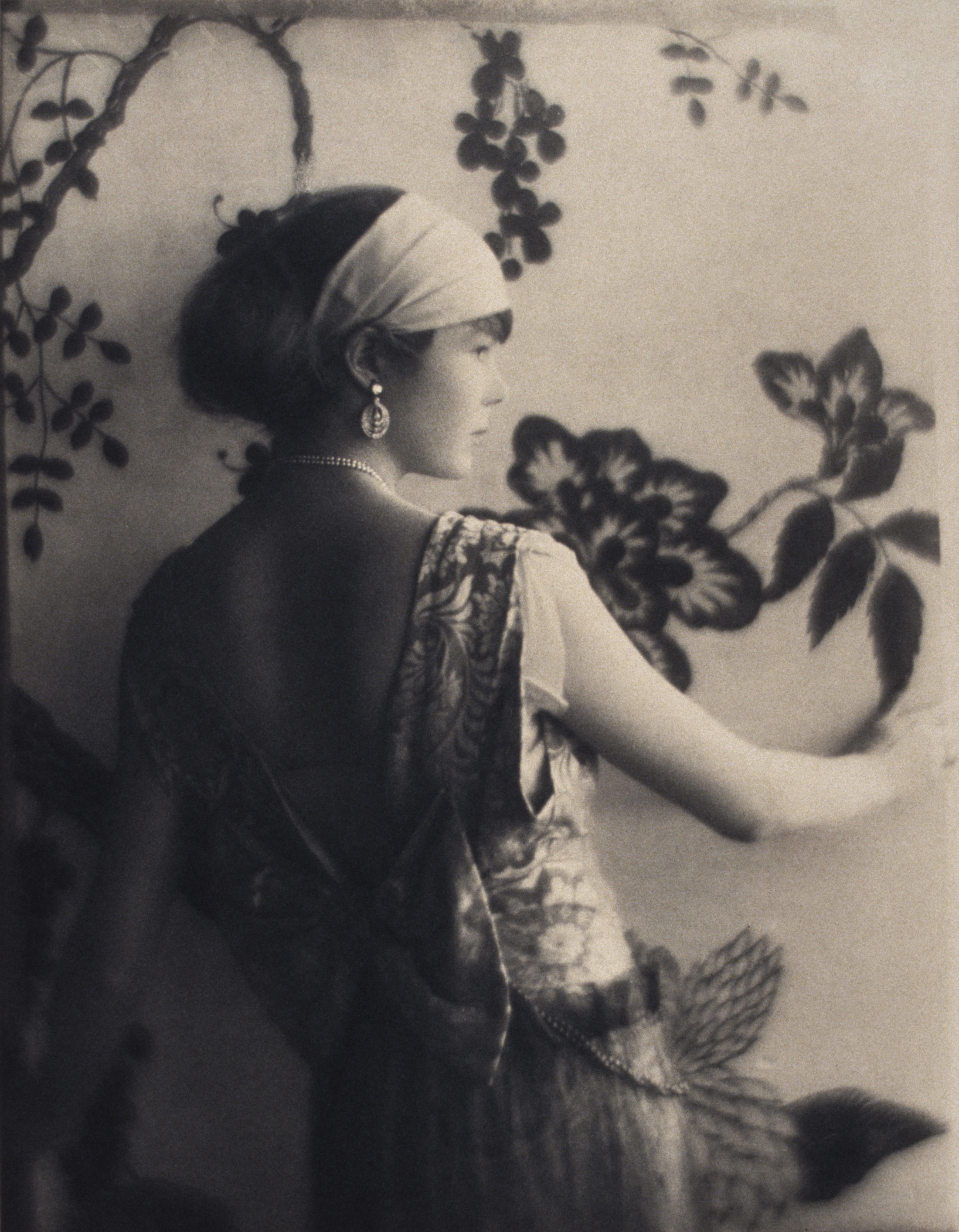 Unidentified woman, half-length portrait, facing right, viewed from behind. From the Frances Benjamin Johnston Collection at the Library of Congress.